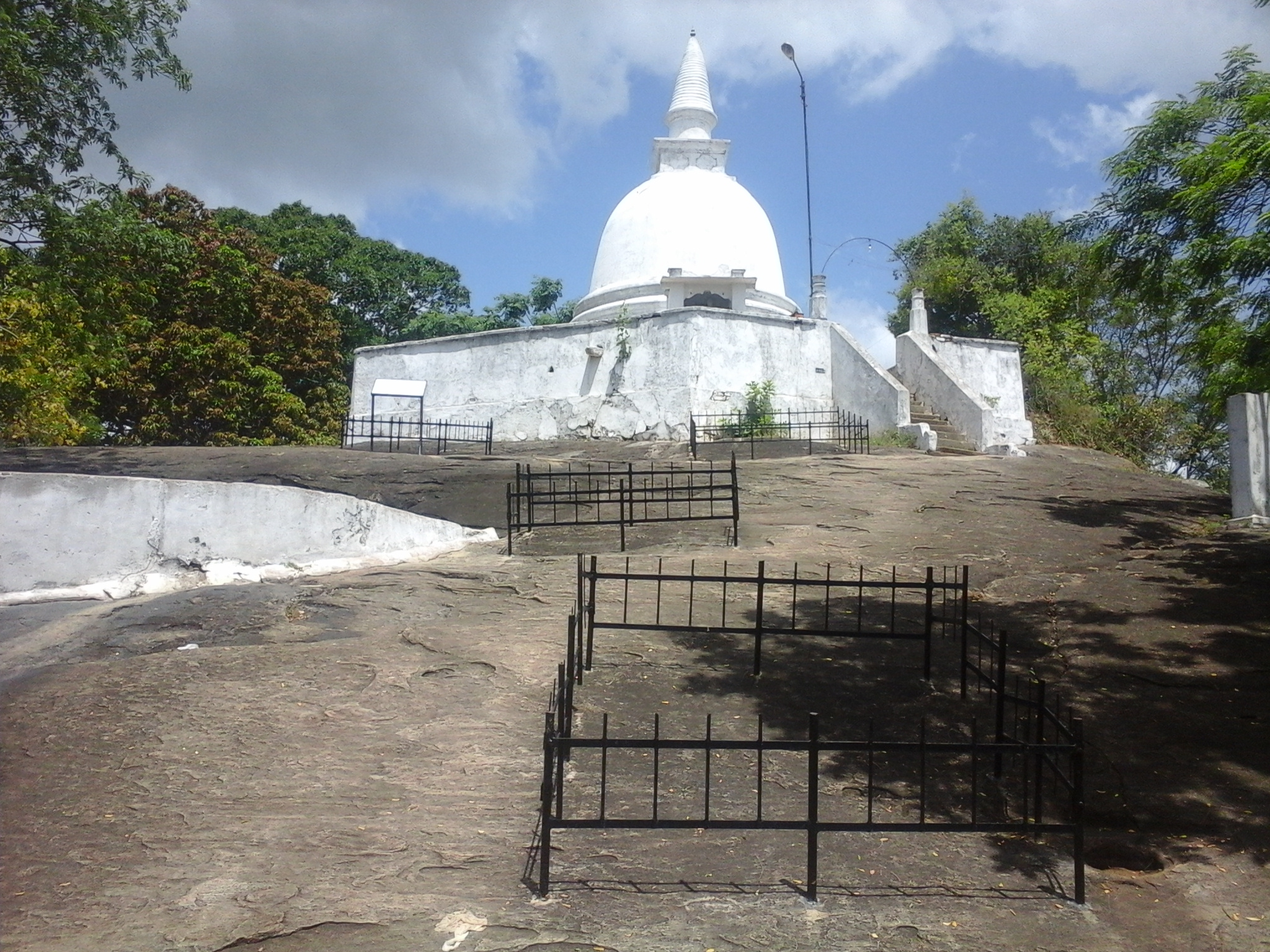 Kasagala Raja Maha Vihara Pagoda